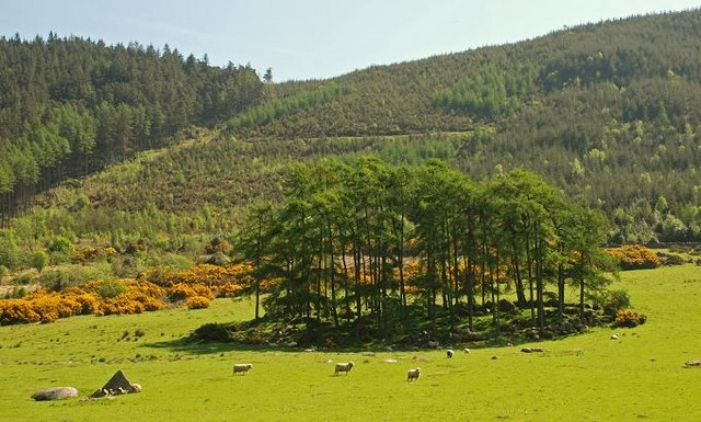 Rath near Rostrevor. This rath (not shown on the OS map) is at Newtown Upper close to 801363. Part of Rostrevor forest (background) has been felled.